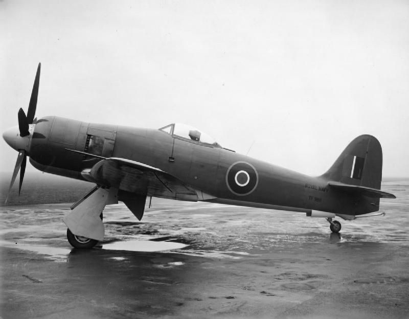 The first production Hawker Sea Fury FB11 (TF988) in November 1947.